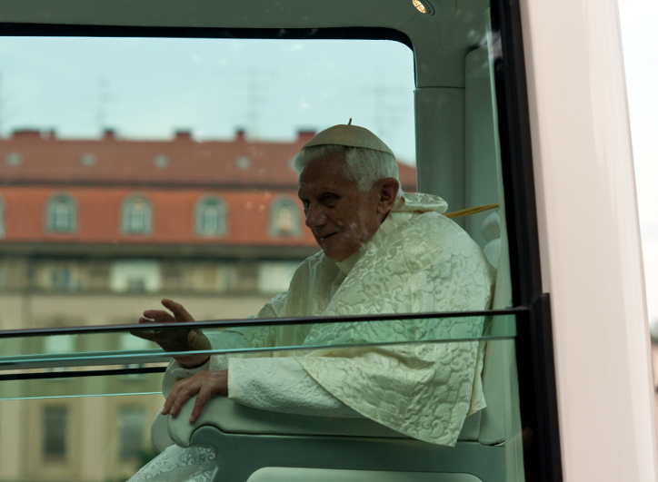 Pope Benedict XVI during his visit in Croatia in 2011, wearing the white Paschal mozetta (without fur trim).